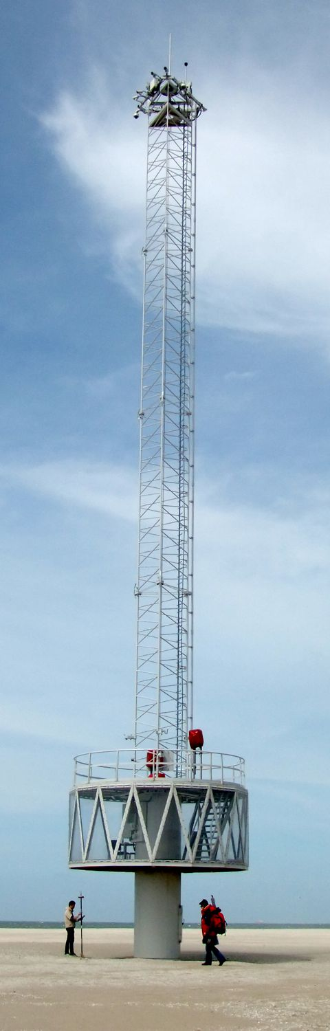 Argus tower on the Sand Engine, Delflandsekust south of The Hague, The Netherlands.